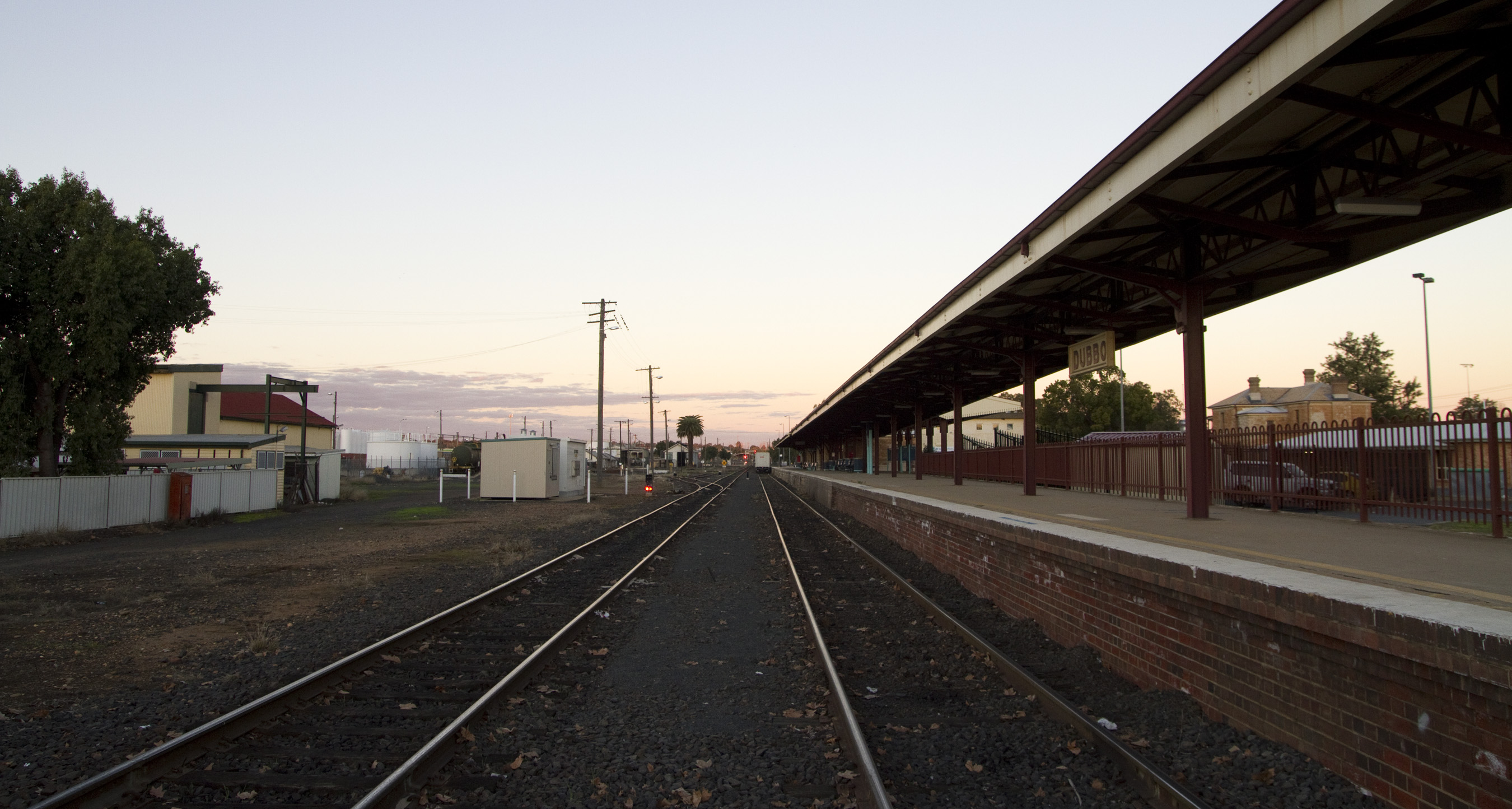 Dubbo NSW 2830, Australia